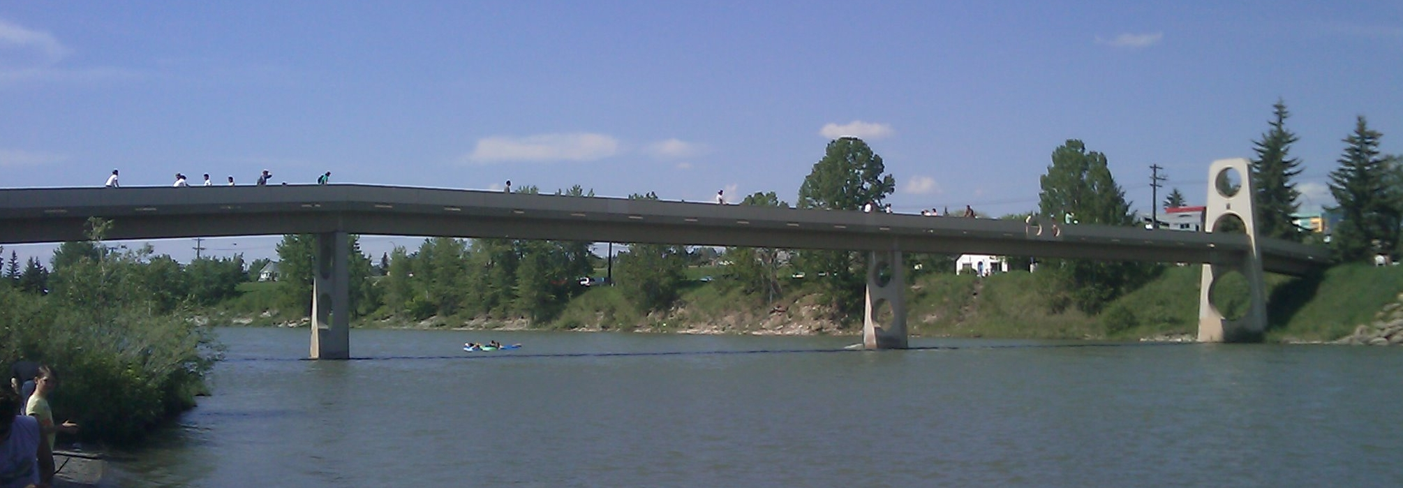 Harry Boothman Bridge from Edworthy Park to Shaganappi in Calgary, Alberta, Canada